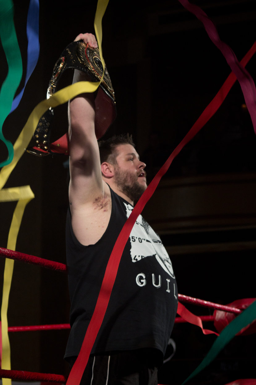 RoH Supercard of Honor VII